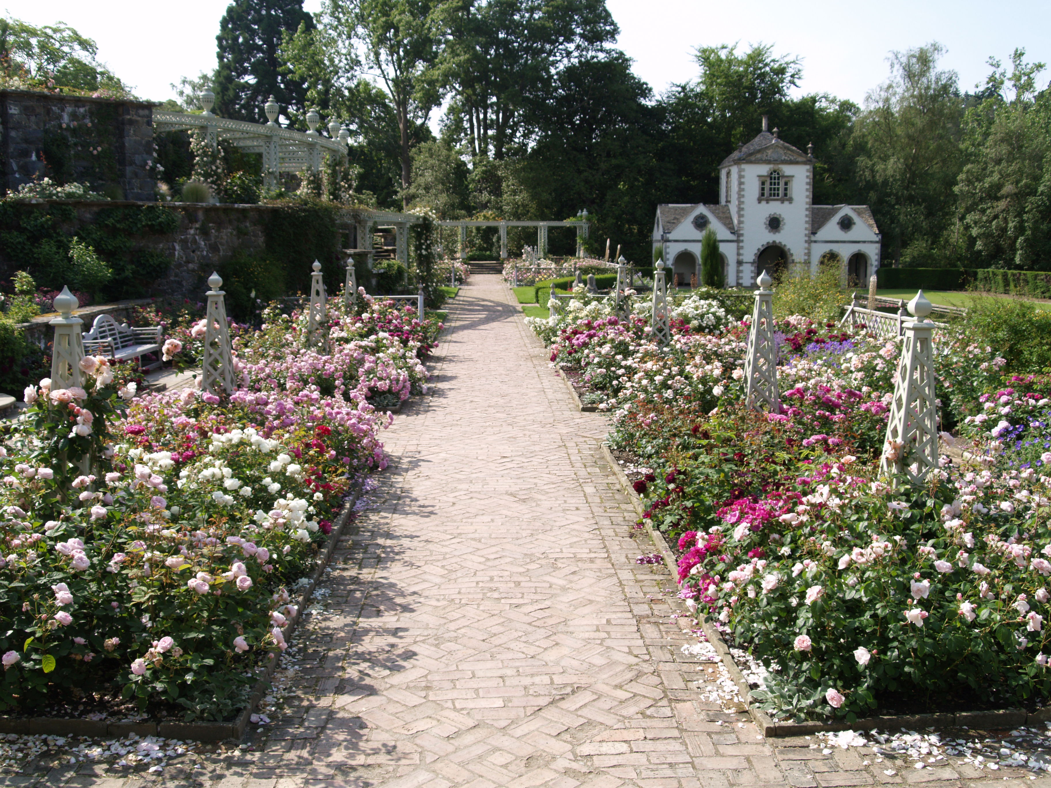 The Pin Mill and Lower Rose Terrace at Bodnant Garden